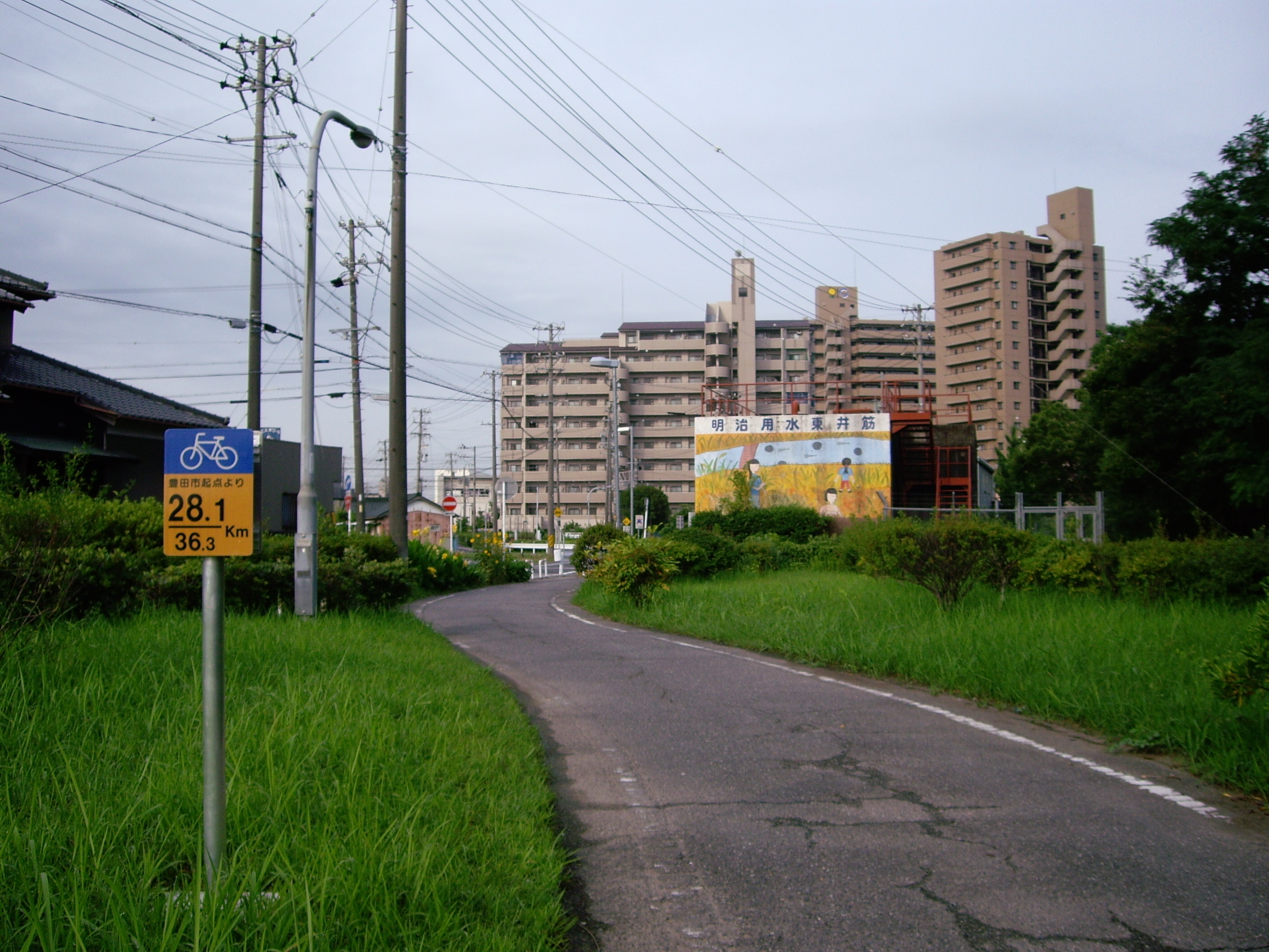 The Toyota-Anjo Cycling Road (Aichi Prefectural Road Route 288) in Daitocho, Anjo City